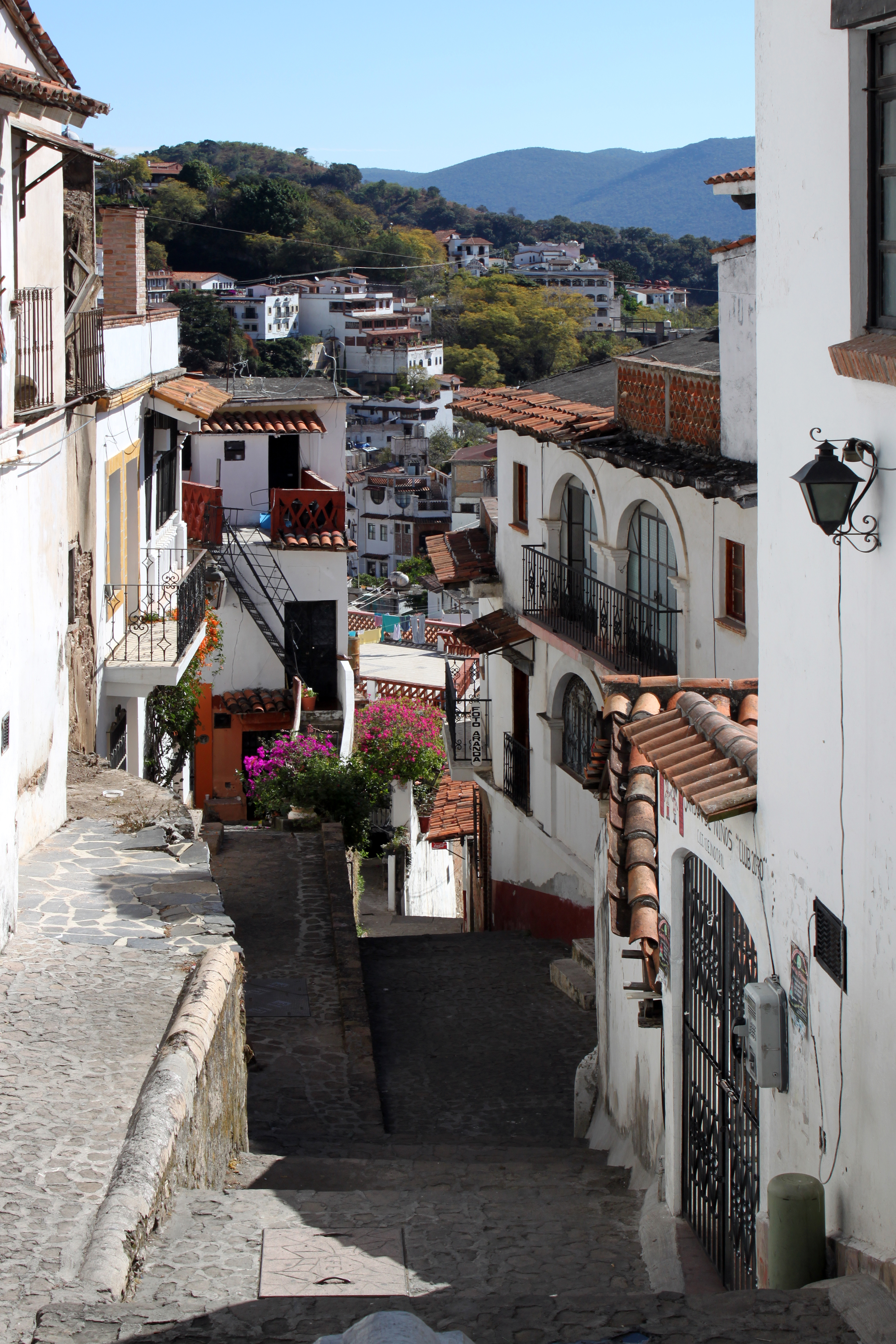 Street scene in Taxco, Guerrero State, Mexico